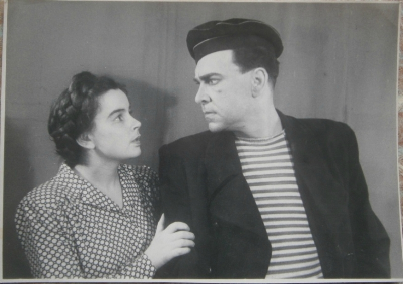 Photo of the performance Under the Golden Eagle by Yaroslav Halan. Honored Artist of the UkrSSR - Lubov Kaganova as Anna Robchuk and Honored Artist of the UkrSSR Olexii Davydenko as Andrey Makarov. (Maria Zankovetska Theatre, Lviv, Ukrainian SSR, 1951)